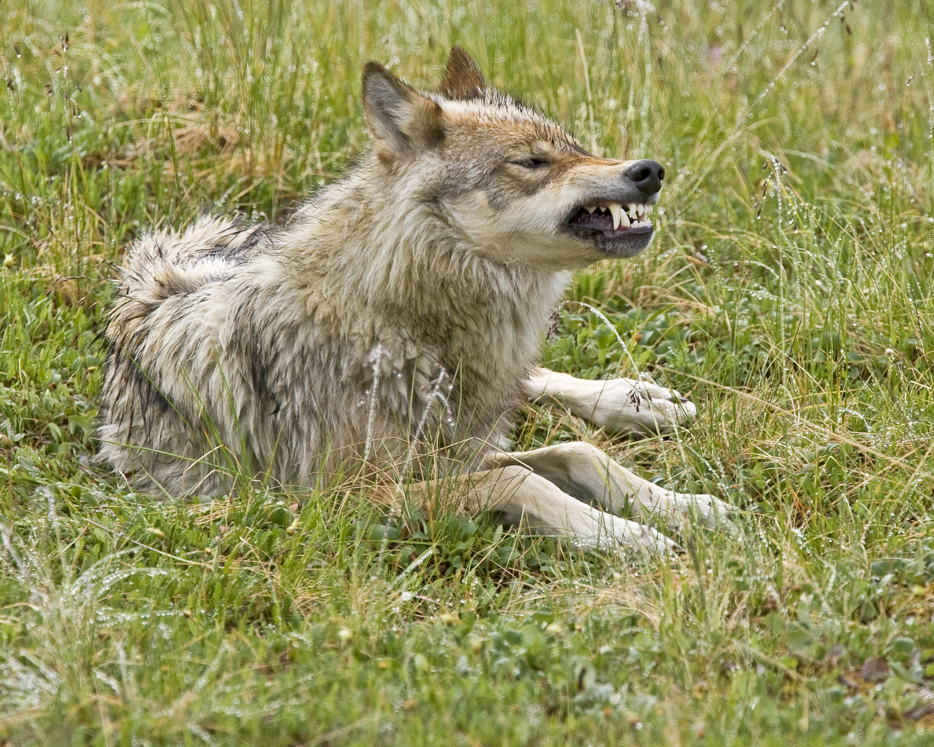 (NPS Photo/Ken Conger) Check out the official Denali Facebook, Twitter and YouTube pages: Like us on Facebook: Follow us on Twitter: Denali YouTube Channel